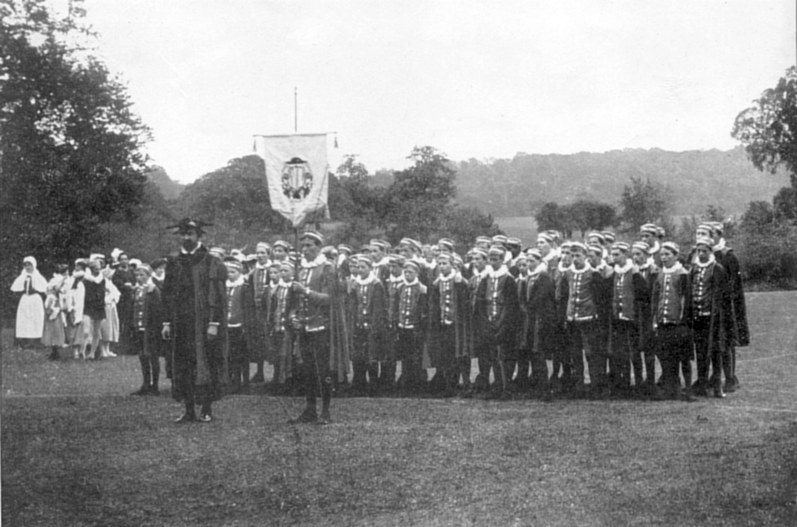 Warwick Pageant (1906)- Warwick School boys performing at the Pageant